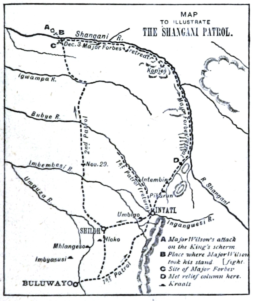 The route of travel of the Shangani Patrol, a British patrol which was wiped by a Matabele force during the First Matabele War.